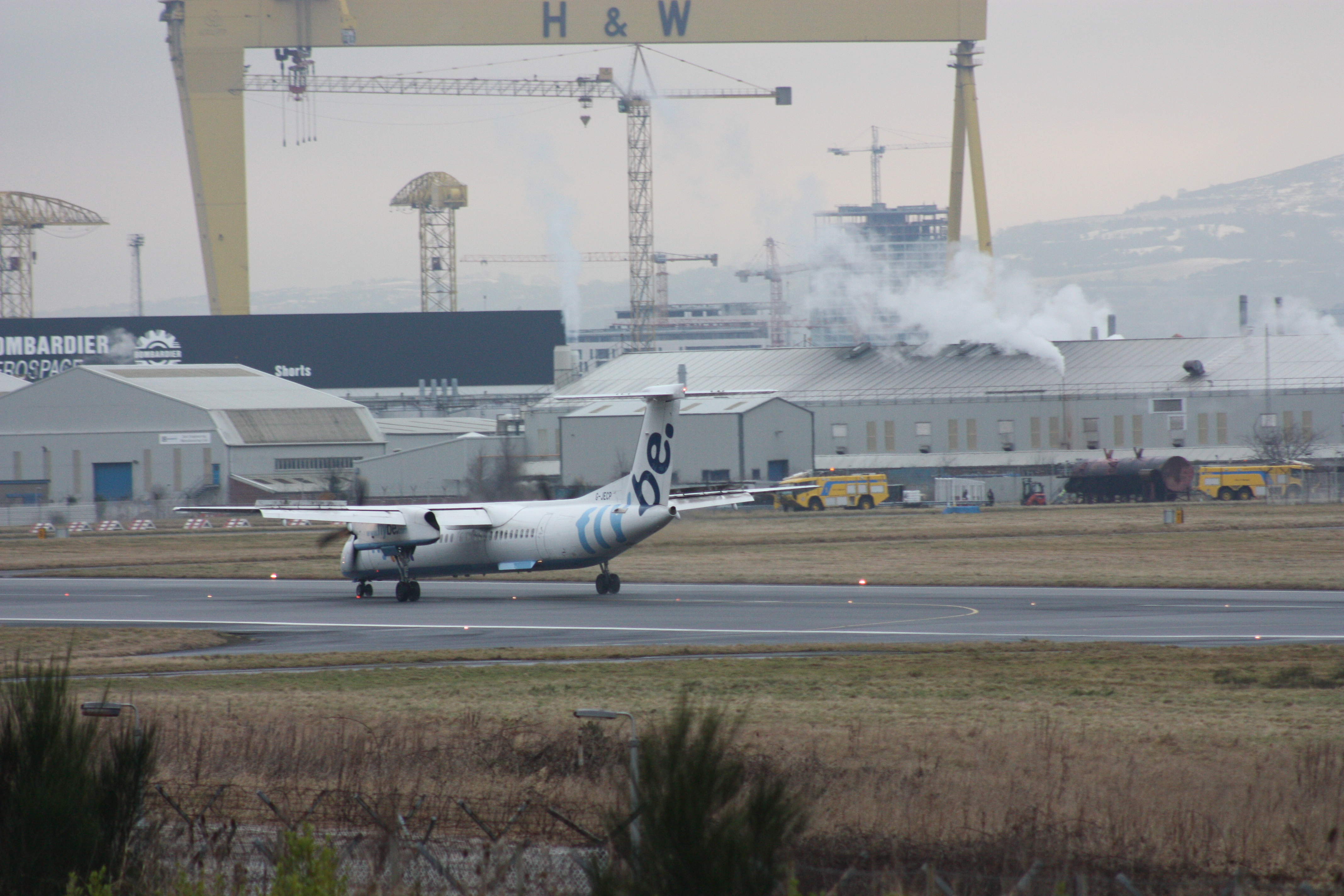 Flybe Dash 8-Q400 aircraft (G-JECP) just landed at Belfast City Airport, Belfast, Northern Ireland, February 2010